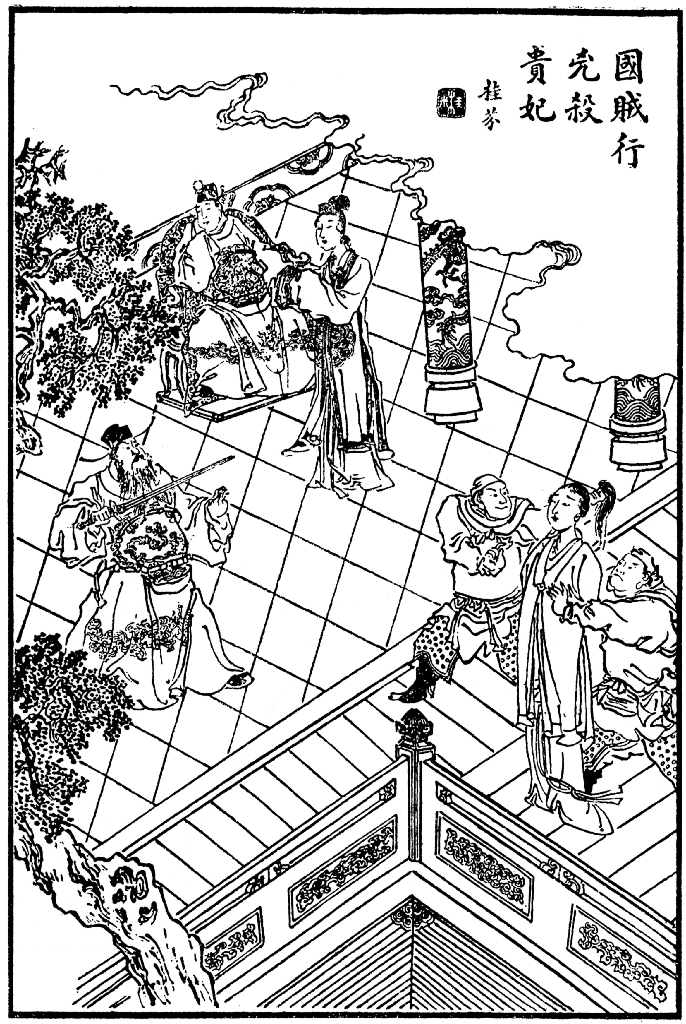 After a failed plot, Cao Cao (left, with sword) commands his goons to take the assassin's daughter away. The Emperor can't do anything about it.